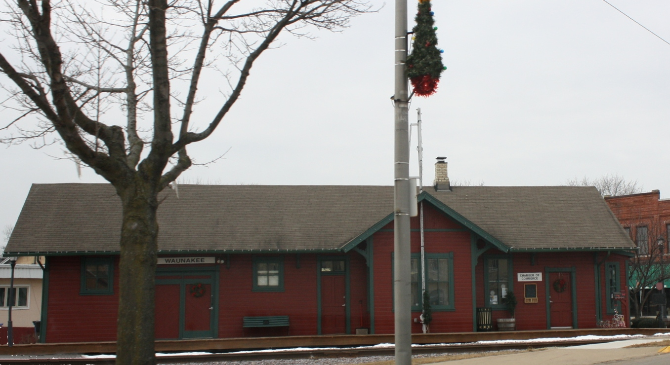 The Waunaukee Train Depot in downtown Waunaukee, Wisconsin. It is listed on the National Register of Historic Places.